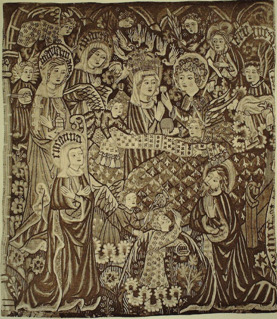 Small fragment of Carpet from about 1470 made in Poor Clares monastery Gnadental in Basel but found after the reformation in Pfaffenweiler, Baden-Württemberg, Germany, now in Museum für Angewandte Kunst Köln